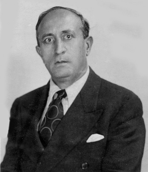 Luigi Meta